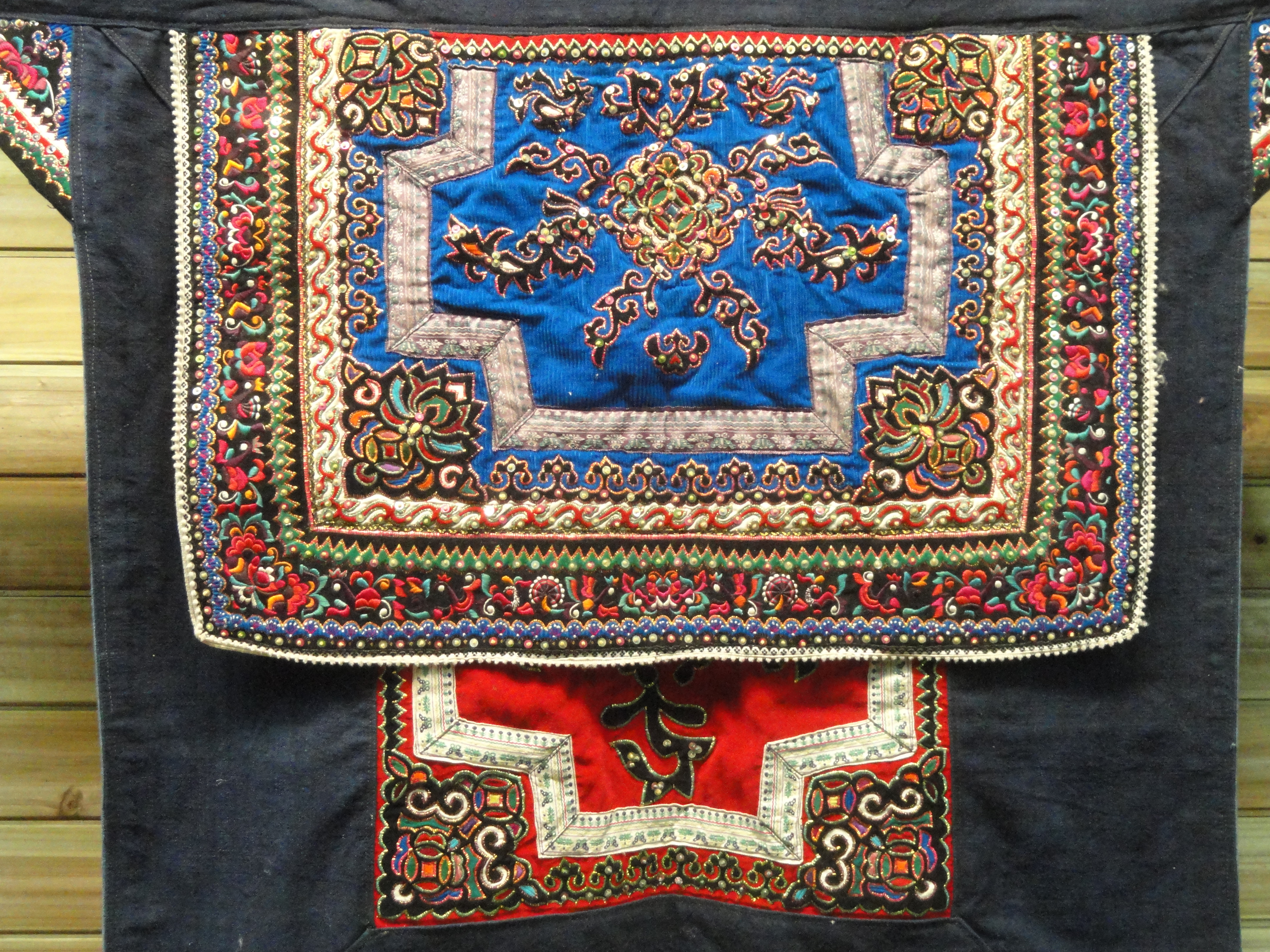 Hani embroidered baby-carrying quilt. Fabric exhibited in the Yunnan Nationalities Museum, Kunming, Yunnan, China.